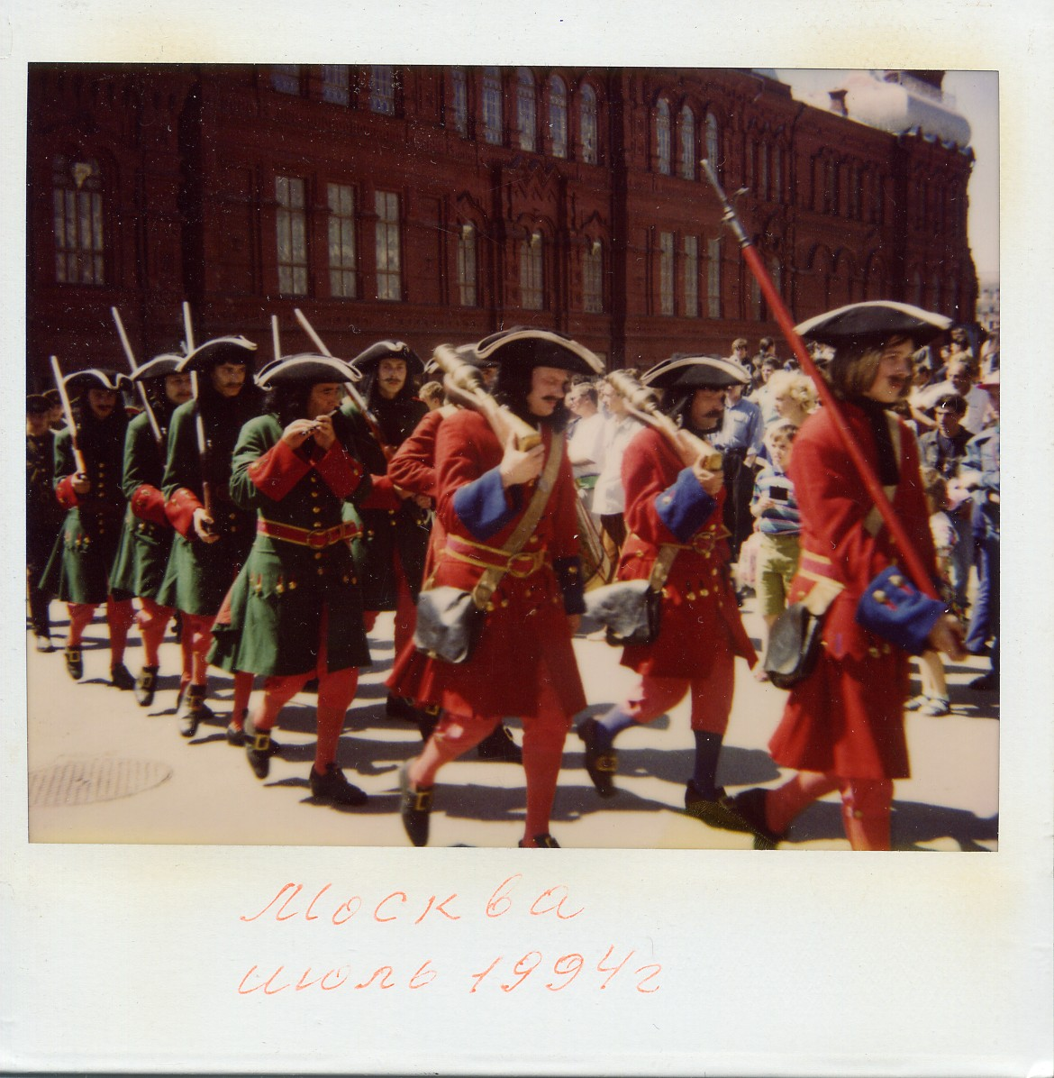 In the uniform from the times of Peter the Great of Russia.